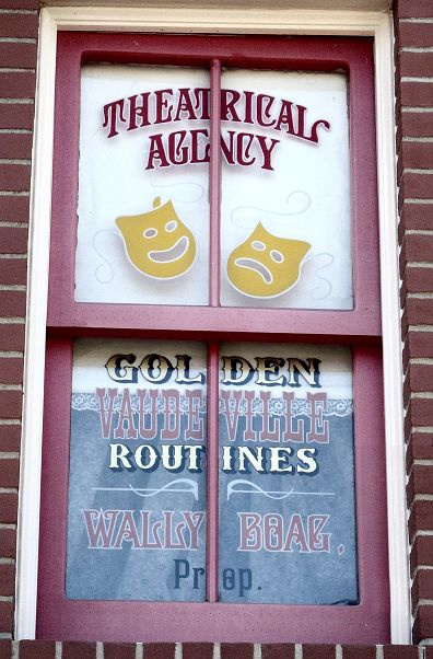 Disneyland - Main Street USA. Wally Boag's Window.